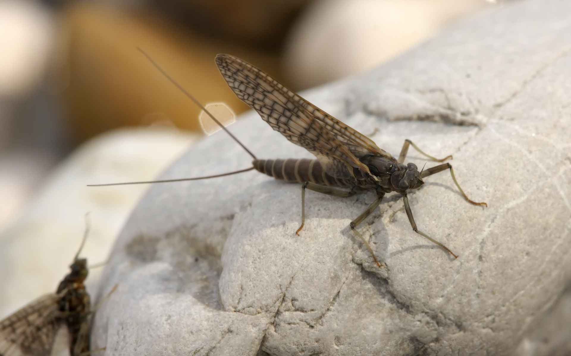 A female subimago of March Brown (Rhithrogena germanica) of family Heptageniidae. Mayflies are insects which belong to the Order Ephemeroptera (from the Greek ephemeros = "short-lived", pteron = "wing", referring to the short life span of adults). They have been placed into an ancient group of insects termed the Paleoptera, which also contains the dragonflies and damselflies. They are aquatic insects whose immature stage (called naiad or, colloquially, nymph) usually lasts one year in fresh water.